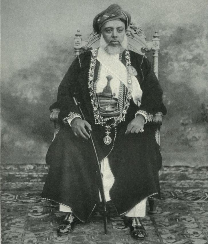 Hamoud bin Mohammed (born 1853-July 18, 1902) Sultan of Zanzibar 1896-1902 Hamoud complied with British demands that slavery be banned in Zanzibar and that all the slaves be freed. For this he was decorated by Queen Victoria and his son and heir, Ali bin Hamud, was brought to England to be educated.